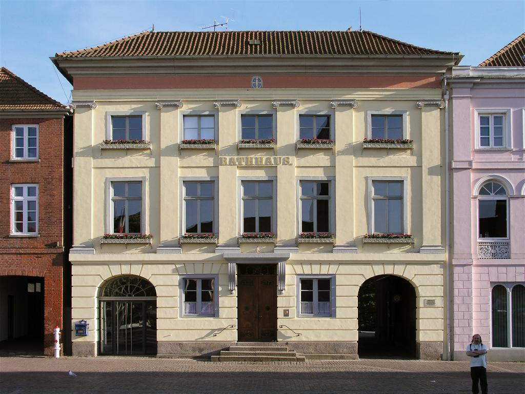 Eutin, Slesvic-Holstein,Germany: townhall, photo 2007